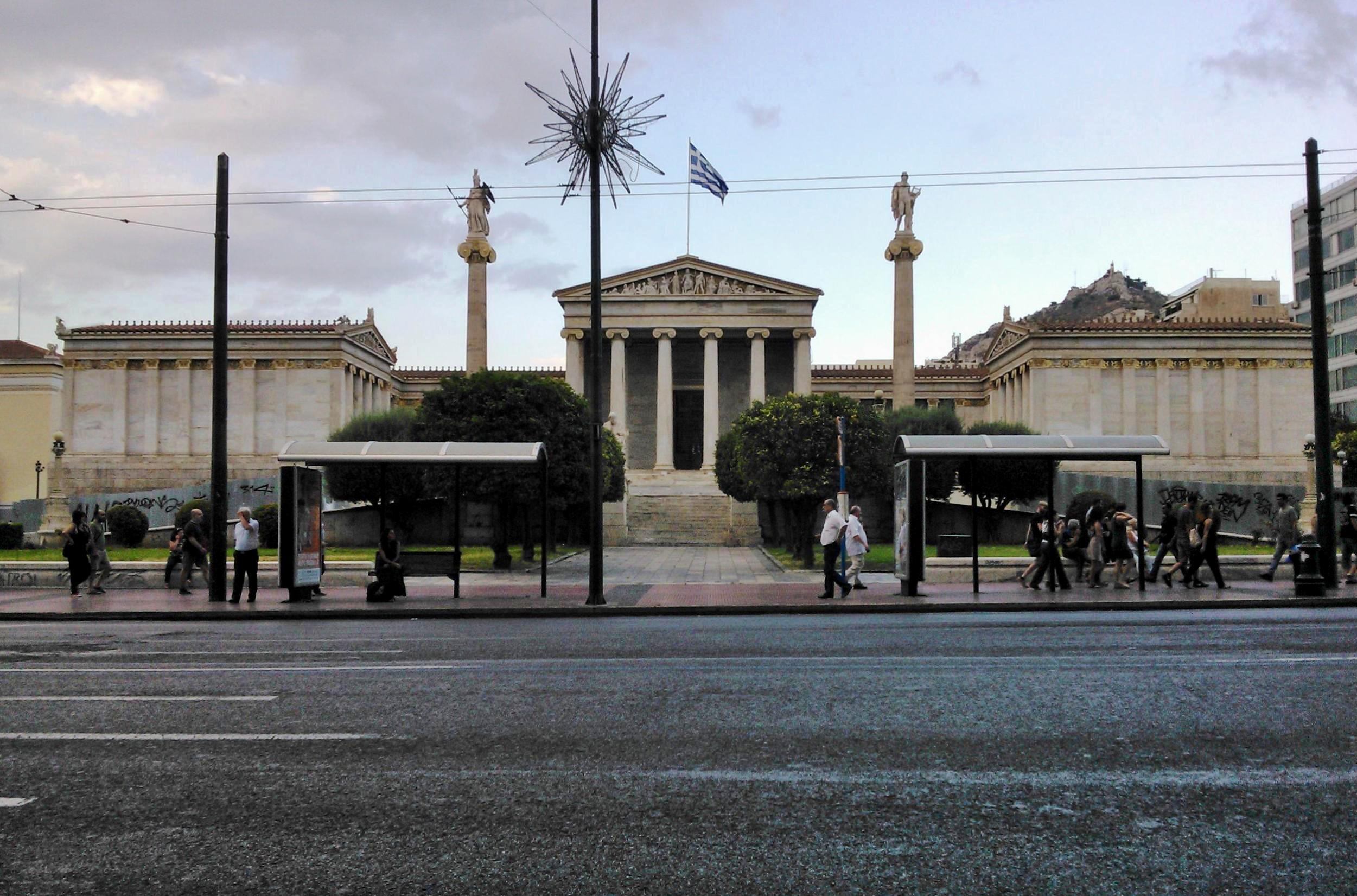 The Academy of Athens Main Building in June 2015.